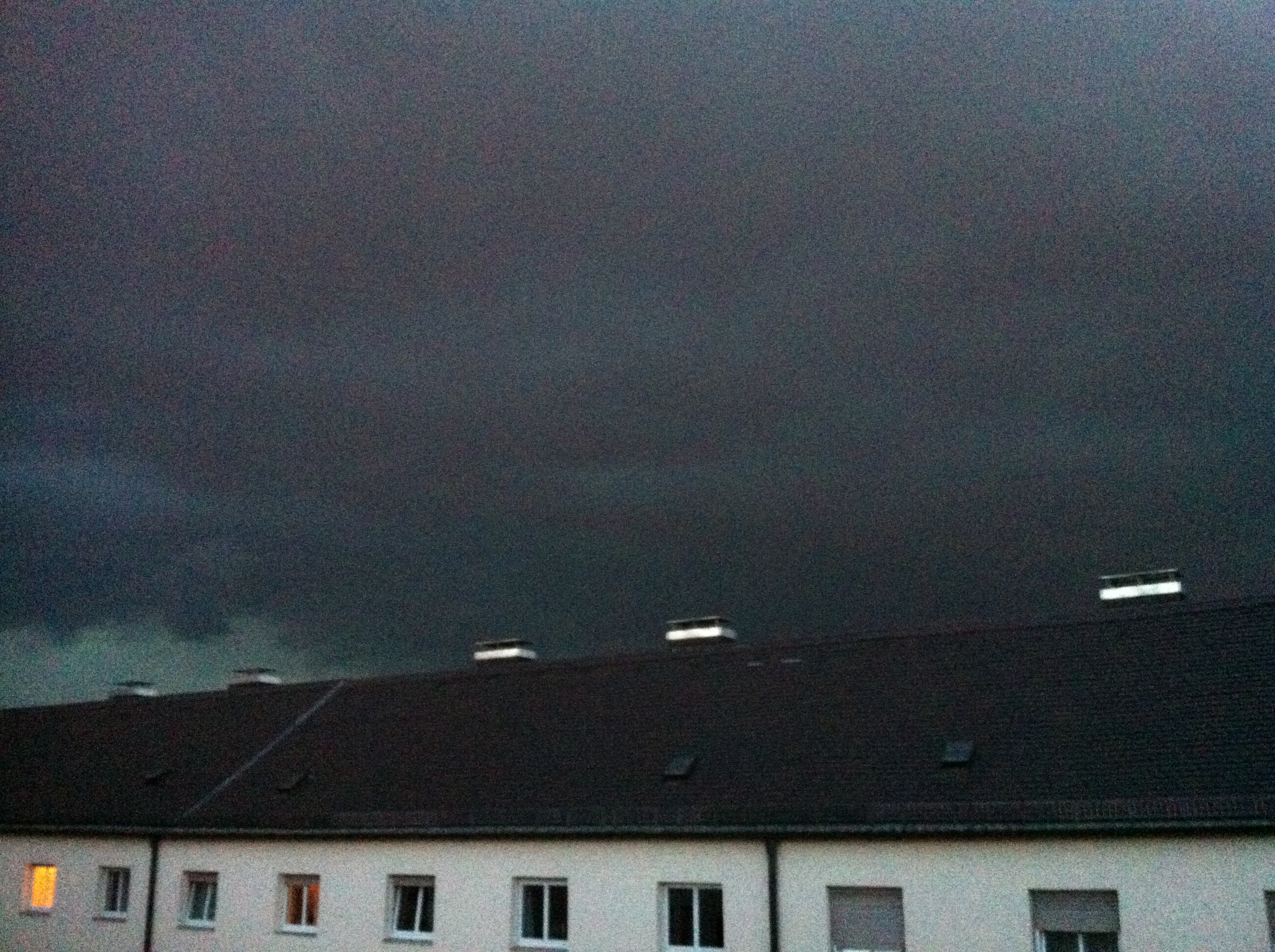 A thunderstorm over rooftop in Munchen, Germany